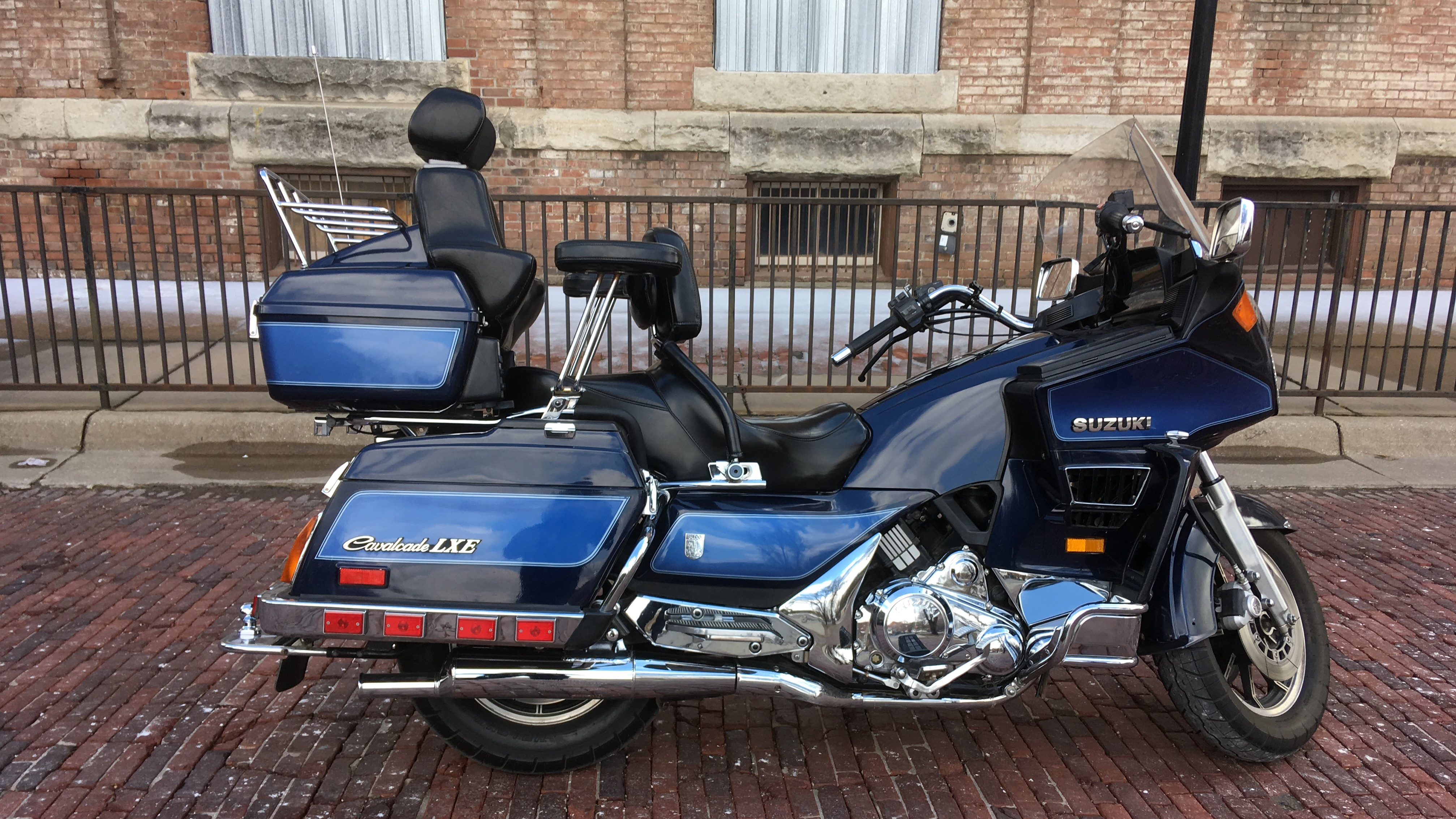 1986 Suzuki GV1400 Cavalcade LXE